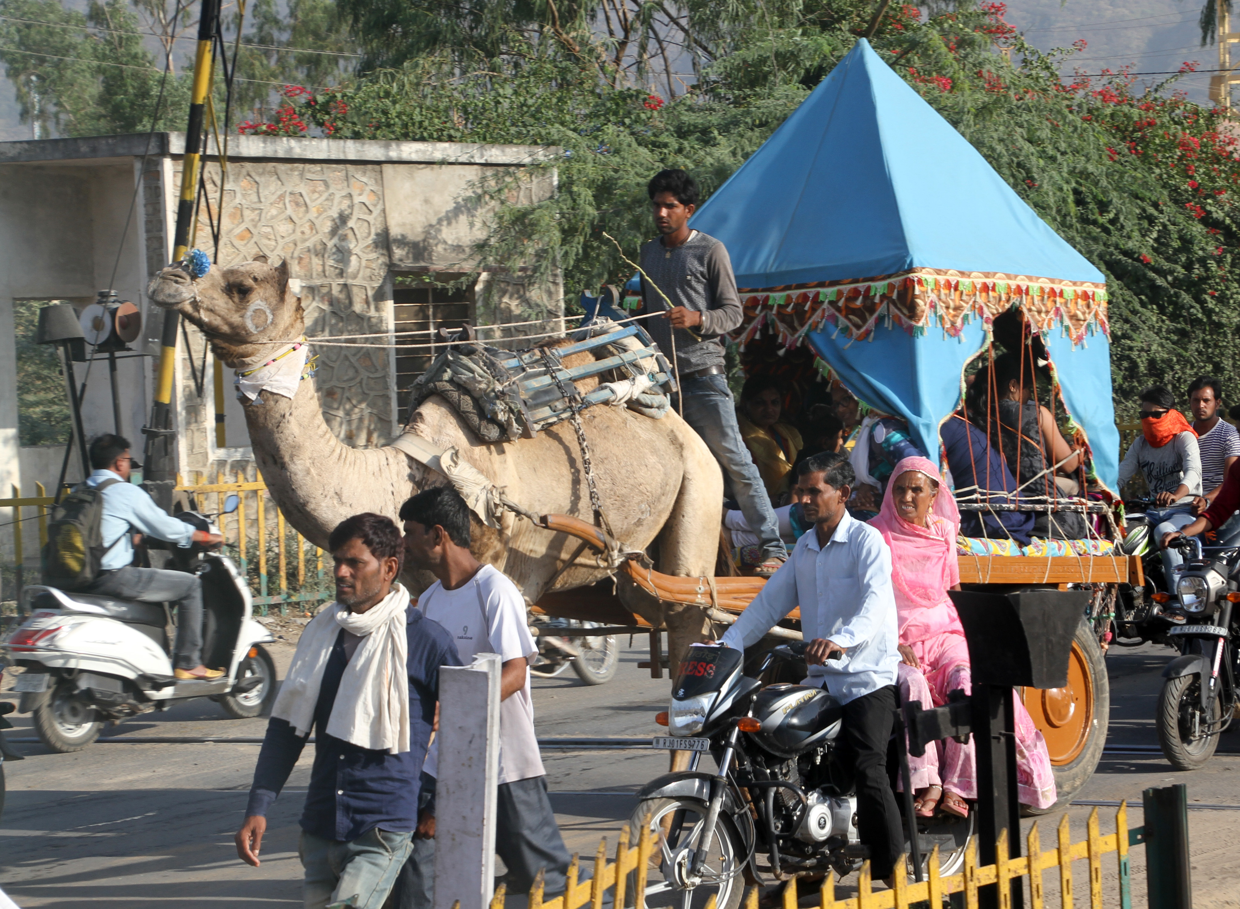 Pushkar Fair